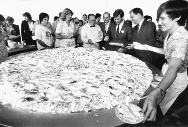 Florida's Governor Bob Graham, third from right, cuts and serves pieces from the World's Largest Key Lime Pie here at the Florida capitol during "Conch Day" celebration festivities. The 7-foot diameter pie required 1,152 key limes for its filling and the meringue, traditionally browned in an oven, had to be signed with a welders torch. Second from the right is Florida state Senator Lawrence Plummer, a Democrat from Miami.